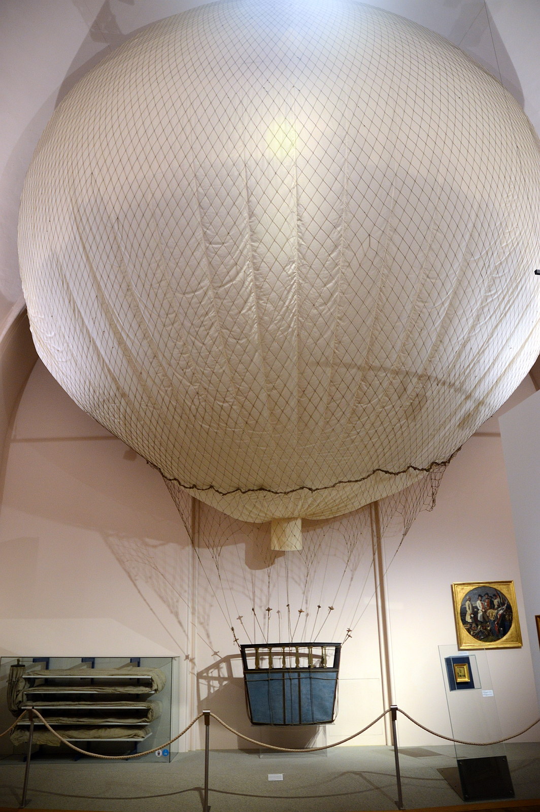 l'Intrépide is the oldest aircraft preserved in Europe. Built in Meudon, Paris, France, this hydrogen-filled observation balloon was used by the First Balloon Company, it was captured on 3 September 1796 by Austrian troops. It is on display in the Austrian Military Museum, Vienna. The original envelope fabric is preserved in the glass case on the left.